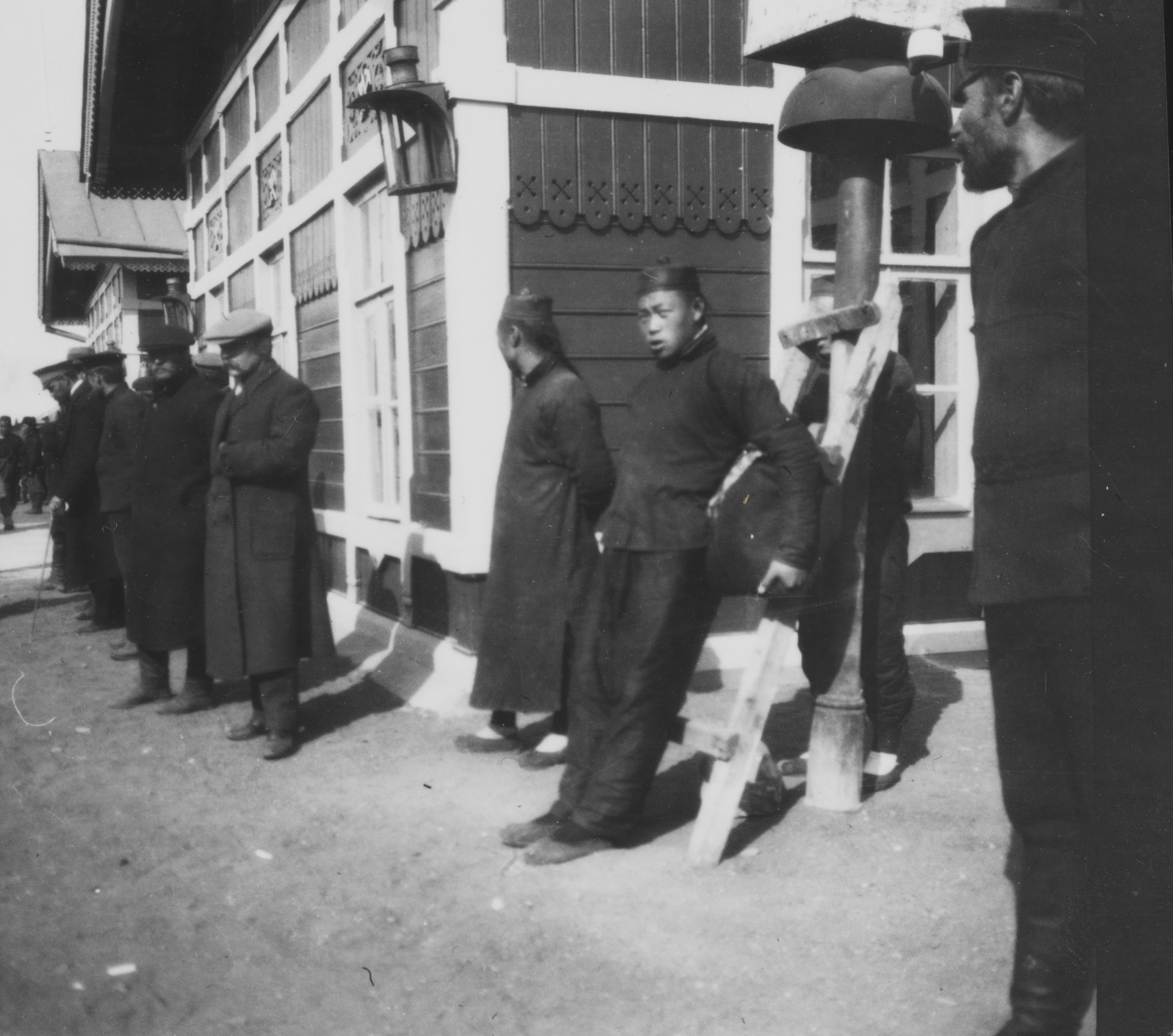 Russians and Chinese at the railway station at Bikin. One of the pictures from the journey to Siberia between Aug. 2 and Oct. 26, 1913. Fridtjof Nansen continued his trans-Siberian journey by railroad, some of it recently finished, from Krasnoyarsk all the way to Vladivostok.